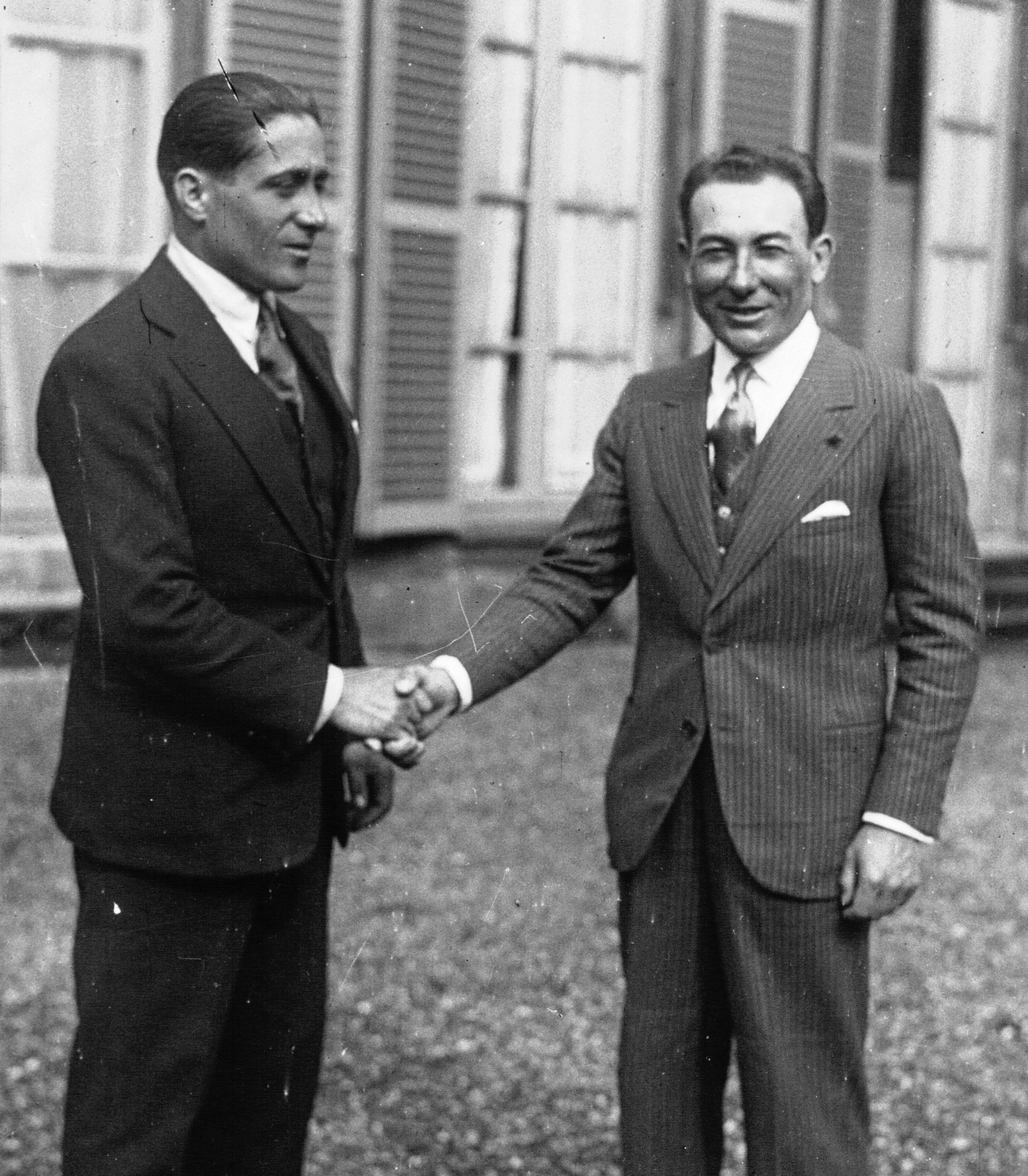 French aviators Dieudonné Costes (1892-1973) and Joseph Le Brix (1899-1931).